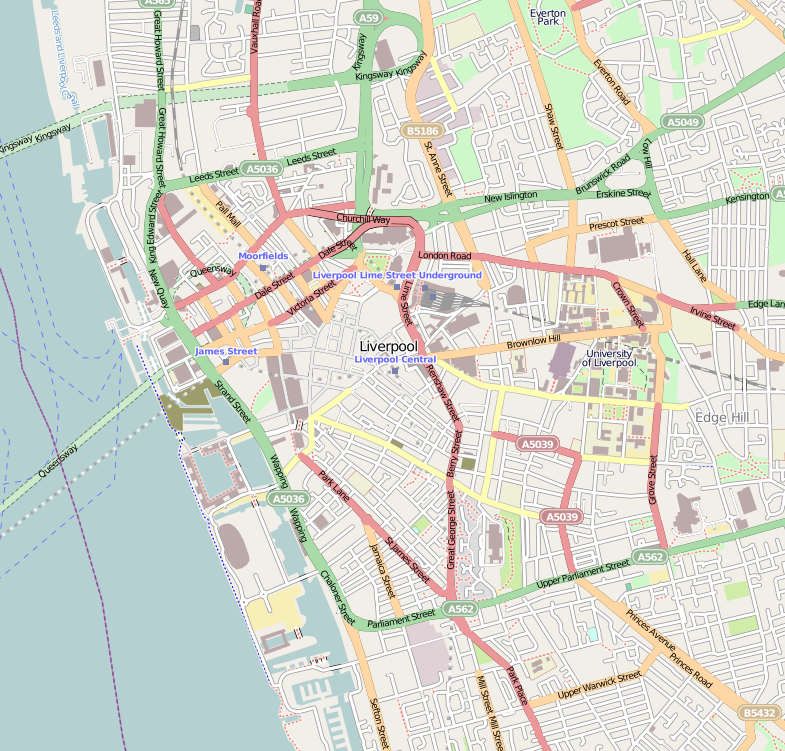 Map of Liverpool Geographic limits of the map: N: 53.4198° S: 53.3888° W: -3.0074 ° E: -2.9531°